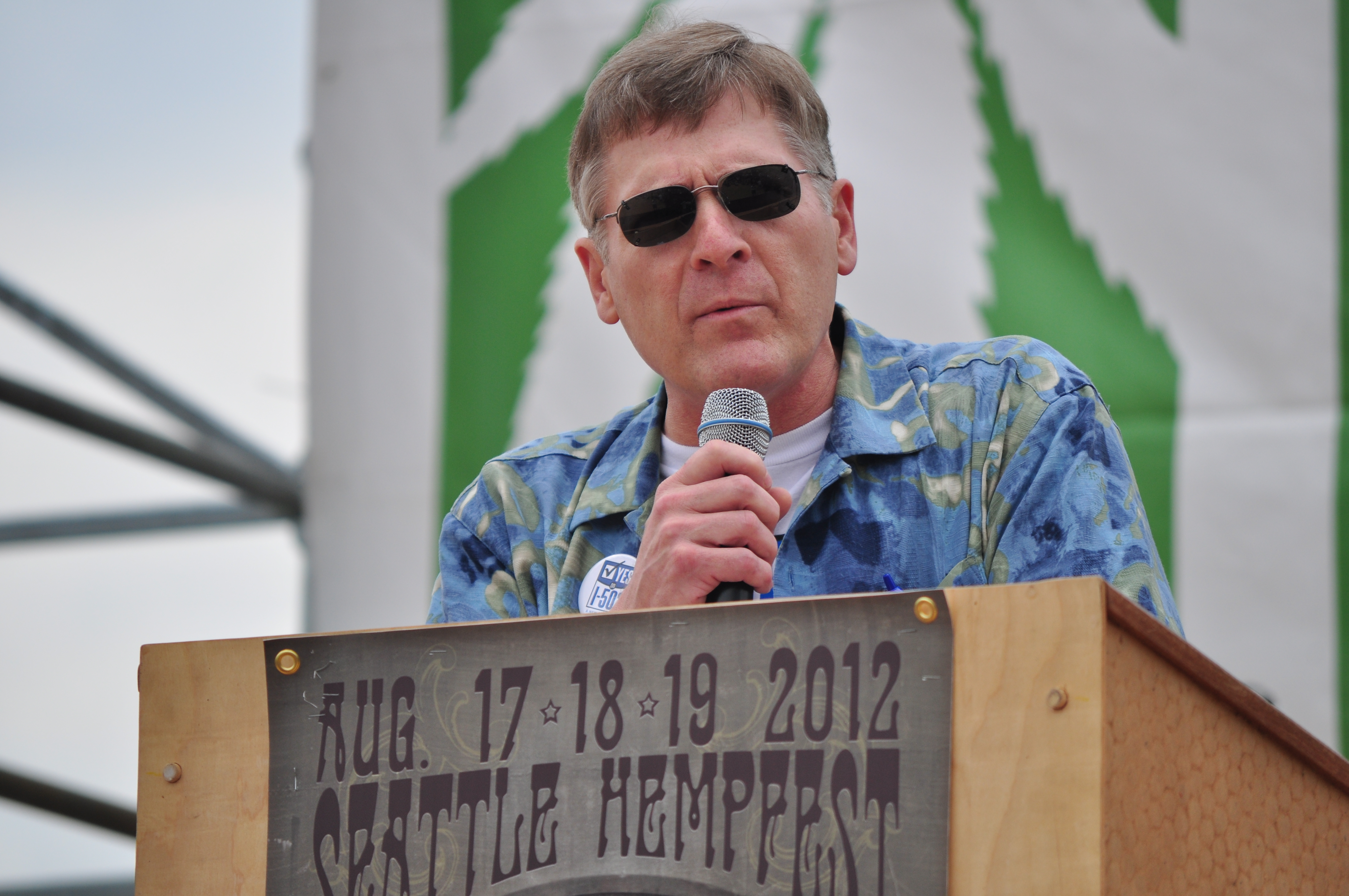 Seattle City Attorney Pete Holmes speaks at Seattle Hempfest 2012.